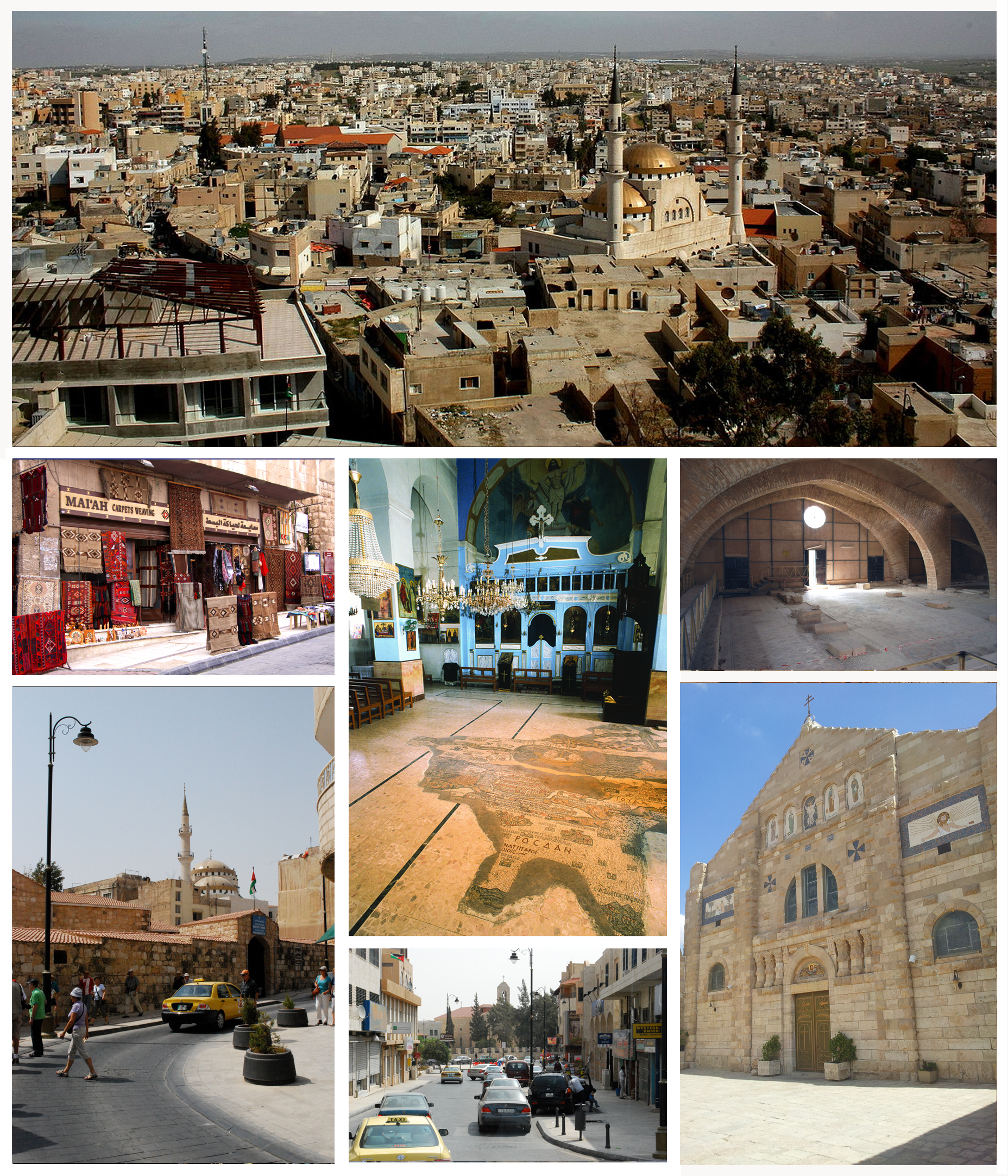 A combination for the pictures of Madaba, Jordan. The place where the pictures have been taken from right to left and above to below: Madaba's skyline and King Hussein Mosque, Apostles Church, Shrine of the Beheading of Saint John the Baptist, St. George Church, Madaba Archaeological Park, Souvenir shops,Madaba Mosaic Map.